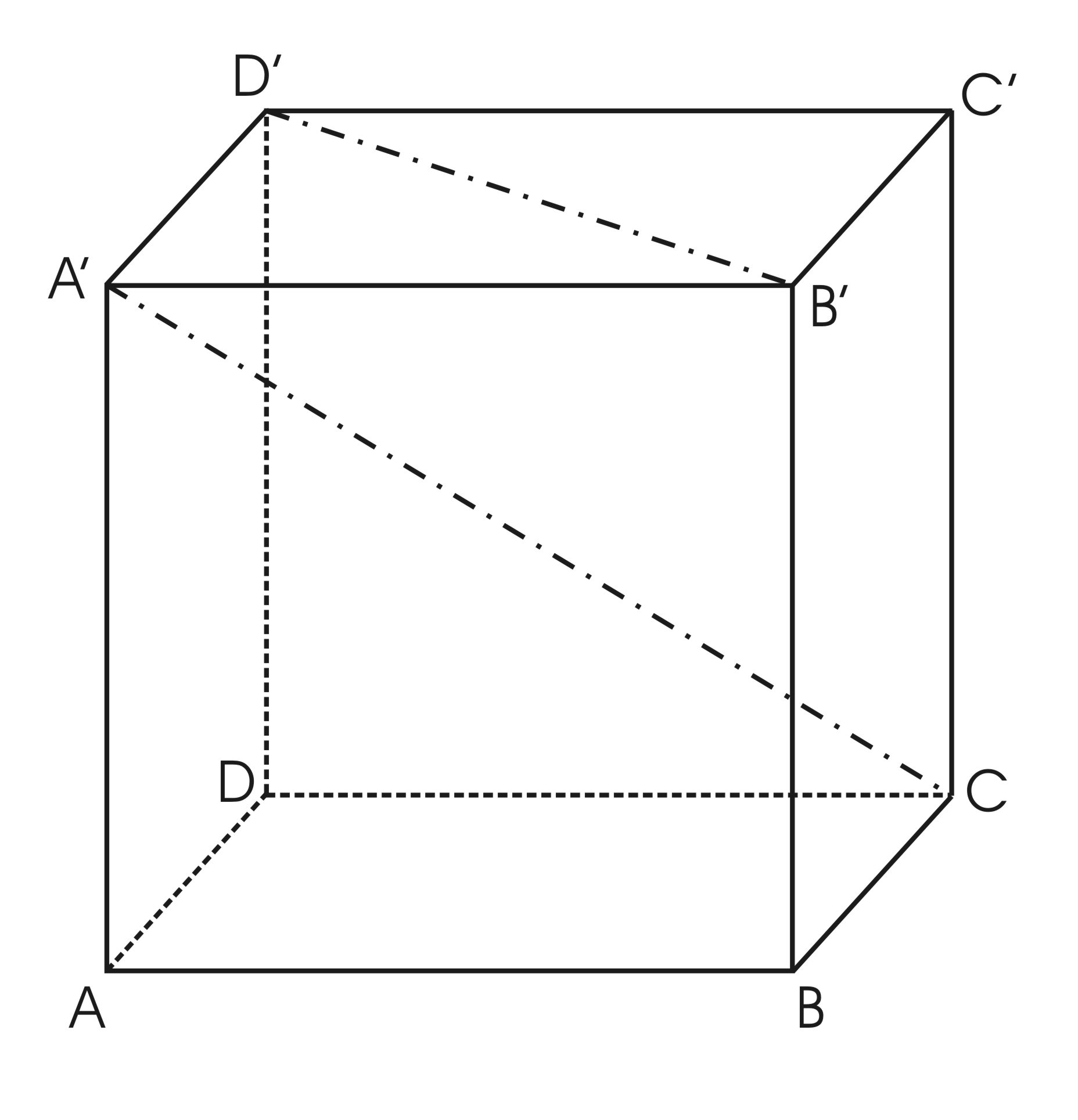 Diagonal